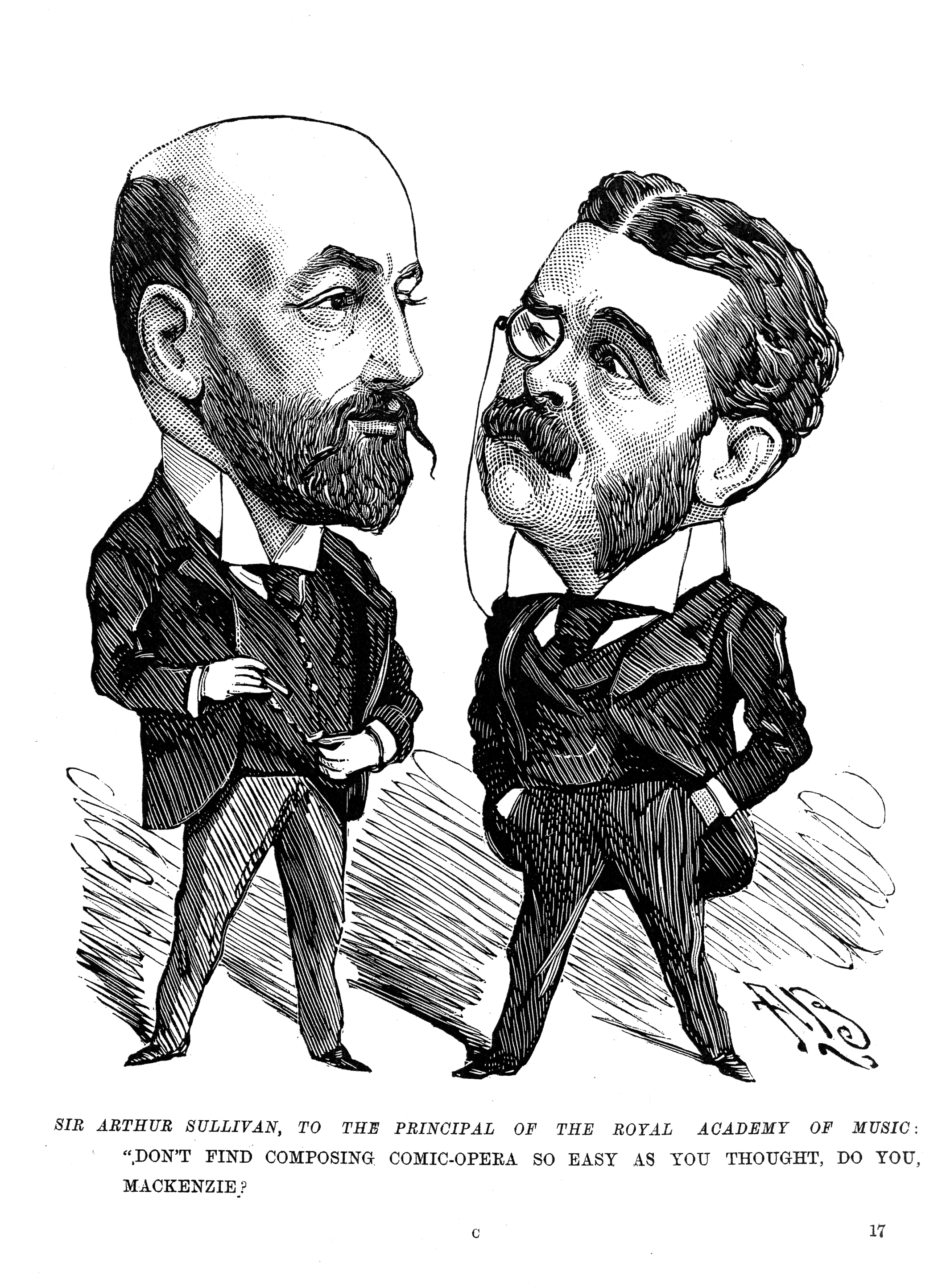 1898 Cartoon giving Sullivan the last word against critics who said he wasted his talent on comic opera. Sullivan is depicted as ironically teasing Alexander Mackenzie after Mackenzie's comic opera, His Majesty flopped in 1897.